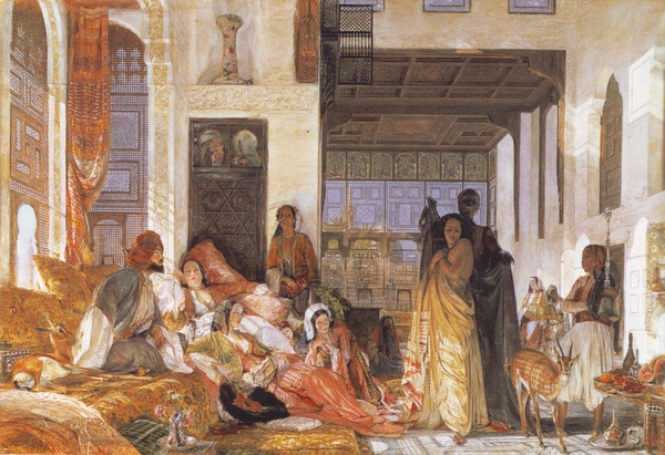 The Harem - Introduction of an Abyssinian slave by J.F. Lewis (1805-1876)